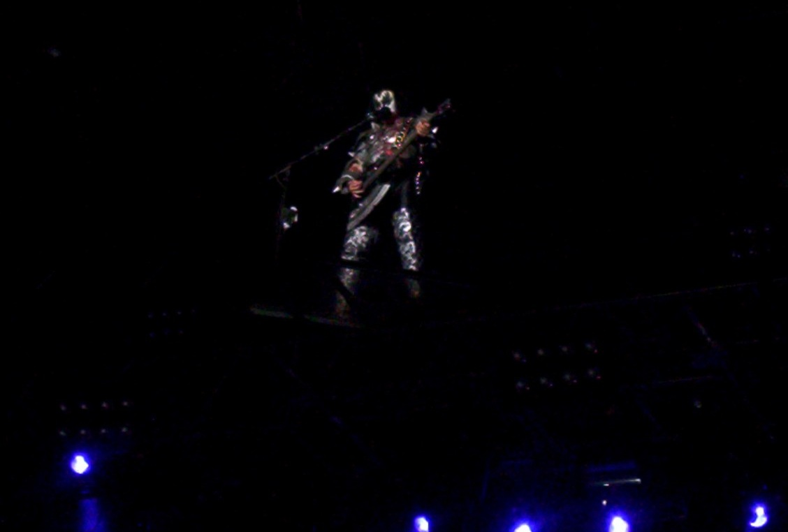 Gene Simmons Colombia 2009